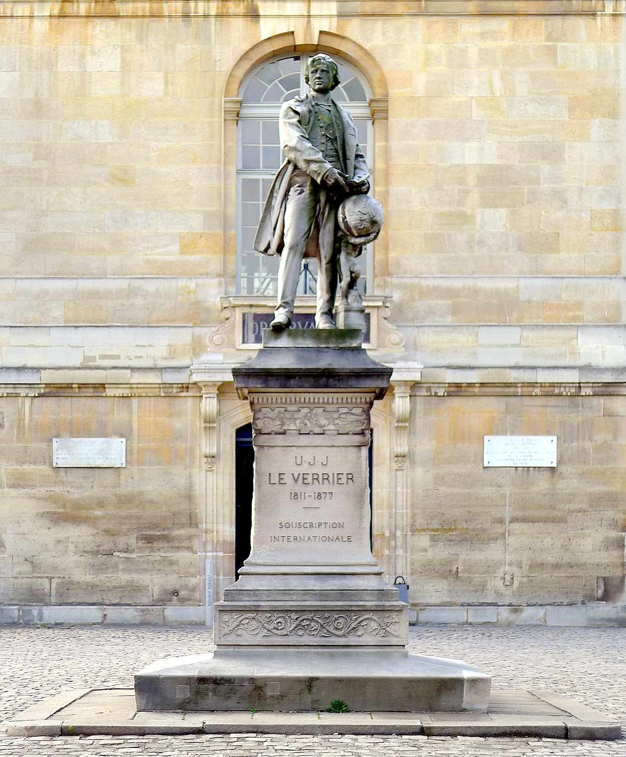 Henri Chapu (1833-1891), Monument to Urbain Le Verrier, 1889, Paris Observatory.